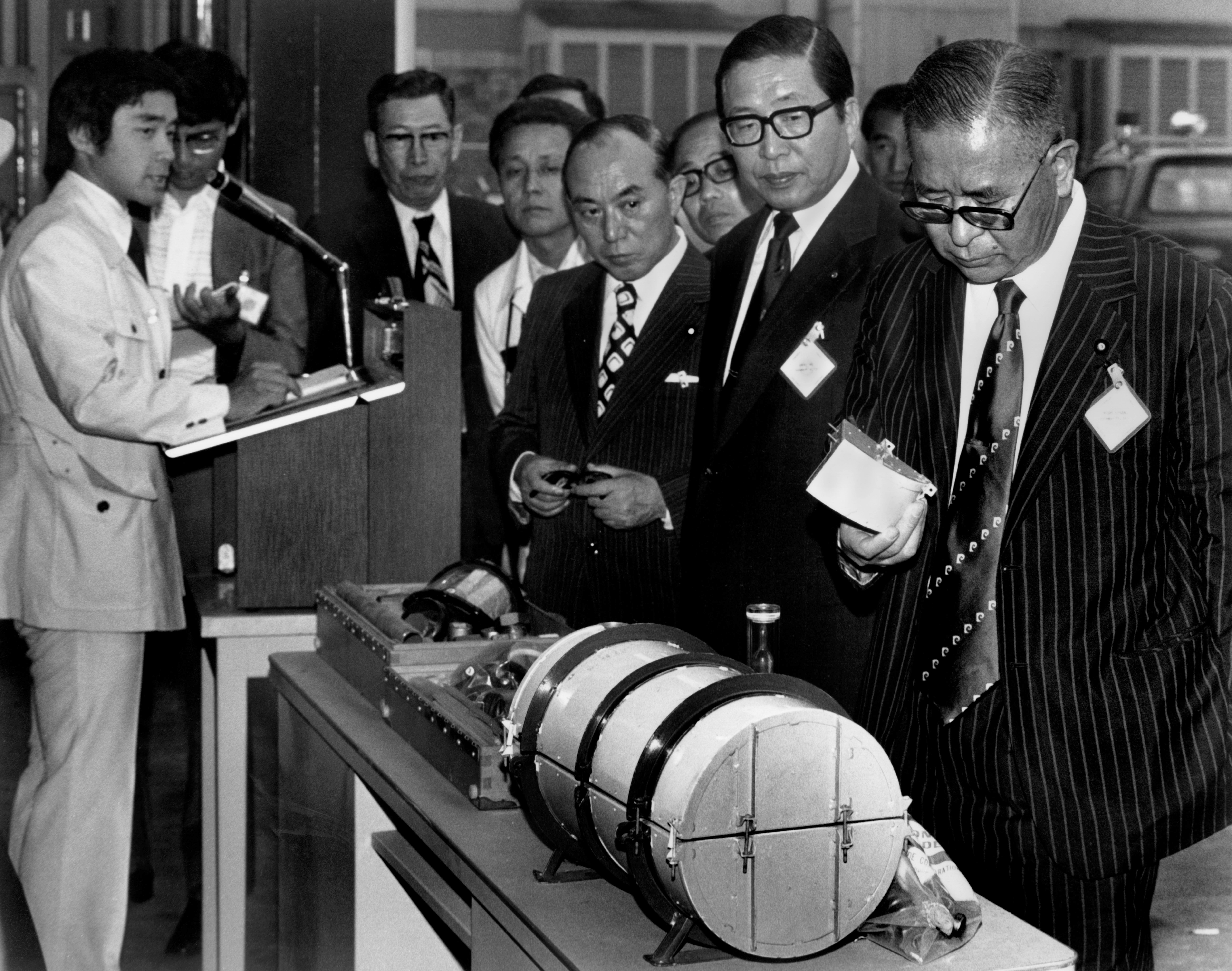 77-392 DOE photo by Frank Hoffman Japanese visit to ERDA ( Energy Research and Development Administration) Oak Ridge Tennessee 9-14-1977